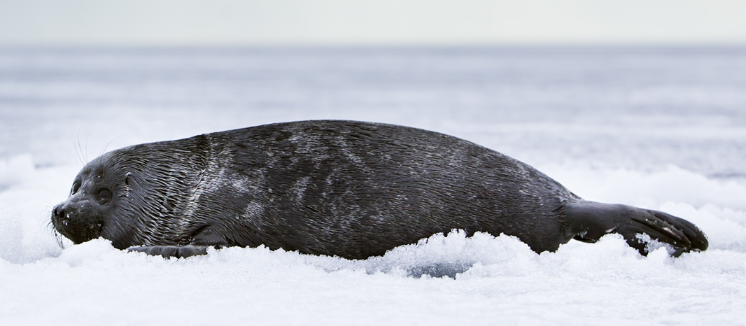 The Baikal seal, Lake Baikal seal, or nerpa (Pusa sibirica, obsolete: Phoca sibirica), is a species of earless seal endemic to Lake Baikal in Siberia.(This is a young seal) Norwegian: Baikalsel. Photo: Per Harald Olsen